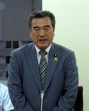 Ryō Shuhama, Parliamentary Secretary for Internal Affairs and Communications, attended a meeting of the Statistics Commission, Cabinet Office at the Central Government Building No.4 in Chiyoda Ward, Tōkyō Metropolis on September 22, 2011. (For terms of use, see 総務省｜当省ホームページについて.)